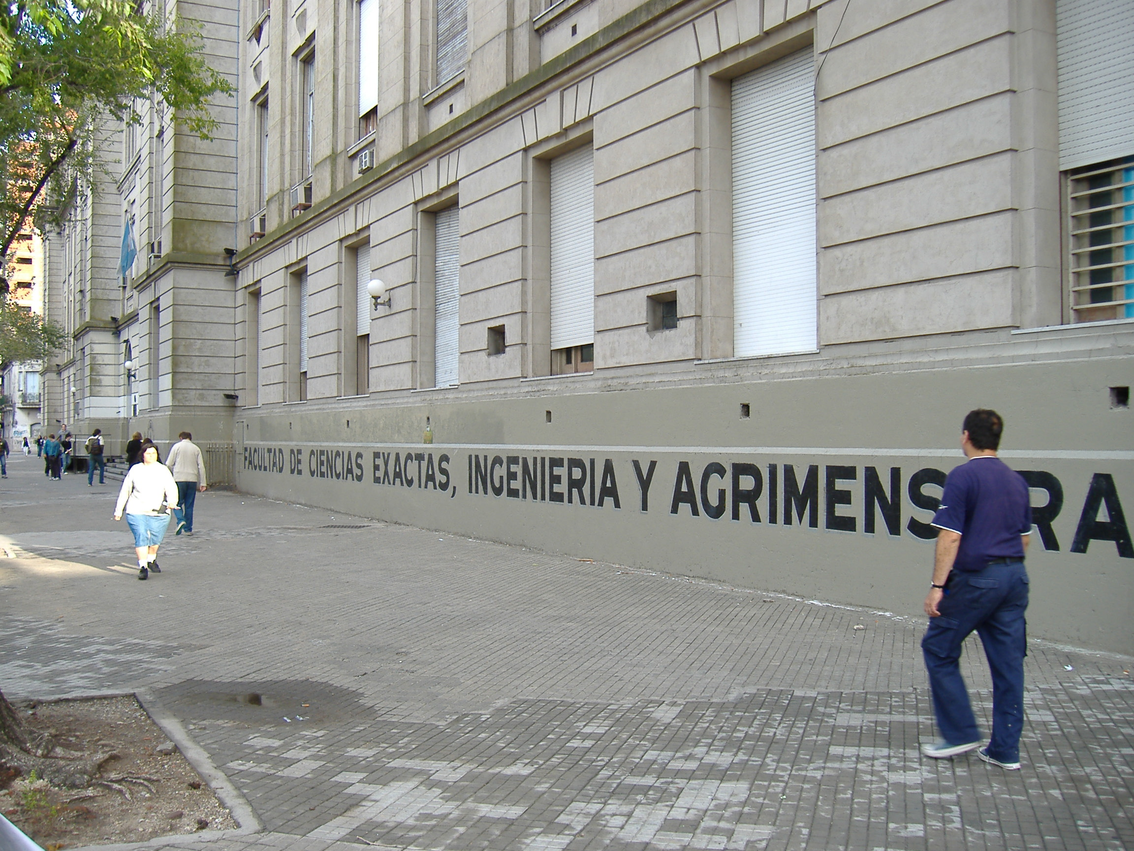 The Faculty of Exact Sciences, Engineering and Agricultural Measurement of the Rosario National University (Facultad de Ciencias Exactas, Ingeniería y Agrimensura de la Universidad Nacional de Rosario), a major public university in Rosario, Argentina. This faculty is located near the beginning of Pellegrini Avenue.